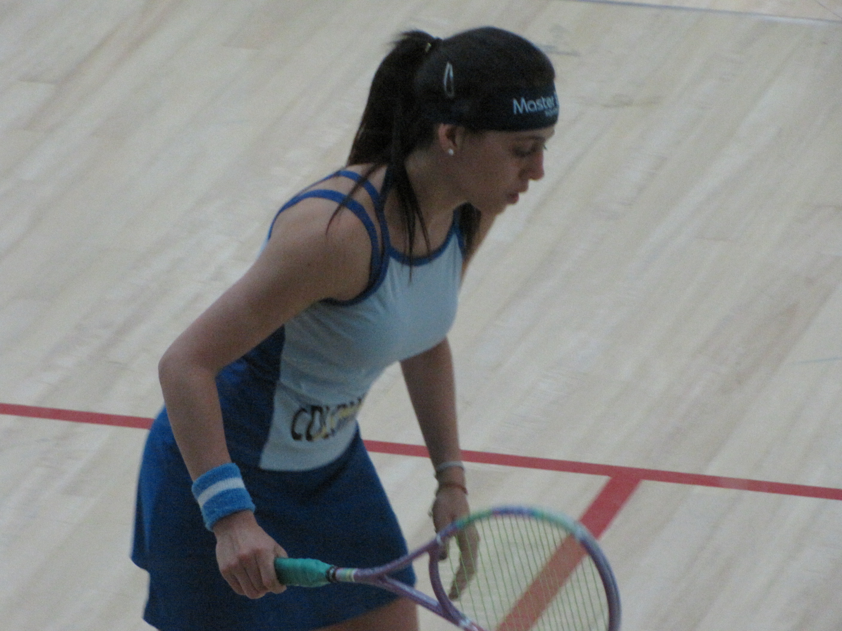 Silvia Angulo, squash player who won 3-0 against the Brazilian Tatiana Borges.